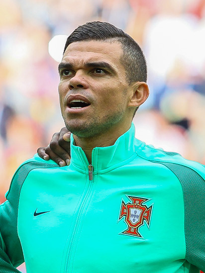 Russia VS. Portugal 0 - 1, 21 June 2017